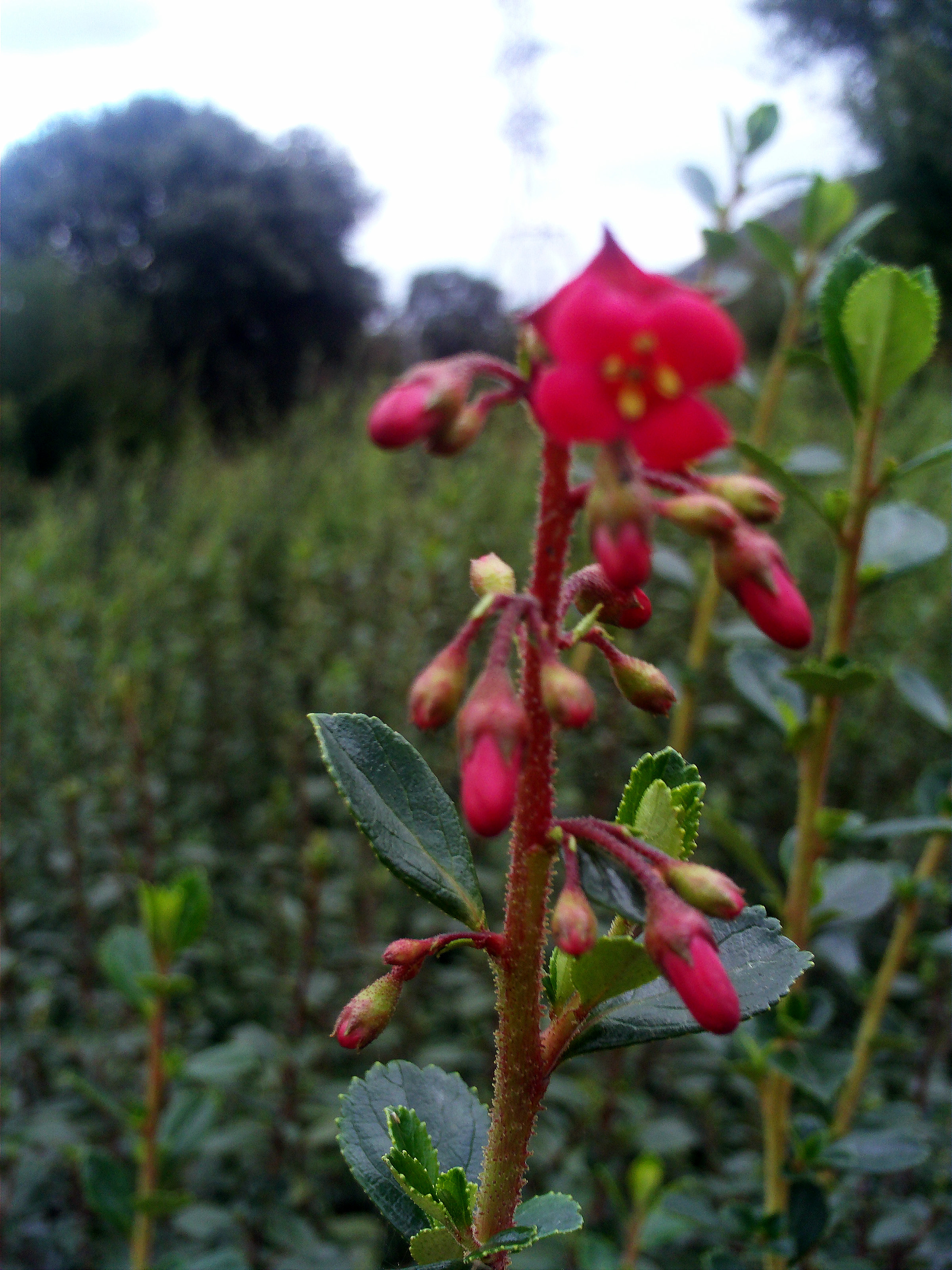 Escallonia rubra flowers, Dehesa Boyal de Puertollano, Spain